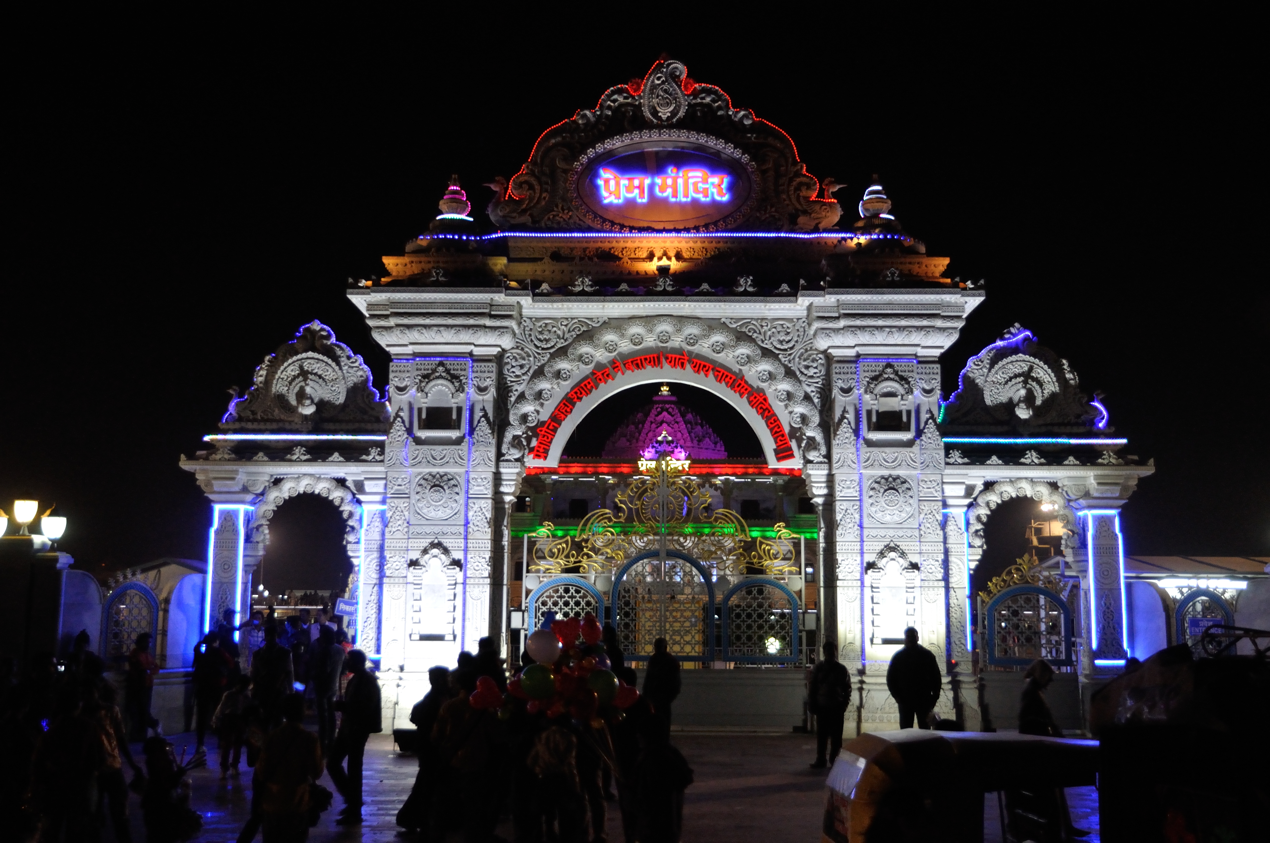 Photographed at Vrindaban, Mathura, India.